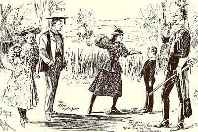 1893 illustration of the title character of Jane Annie hypnotizing the character Caddie in Act II.